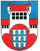 Coat of arms of Thüringerberg, Vorarlberg